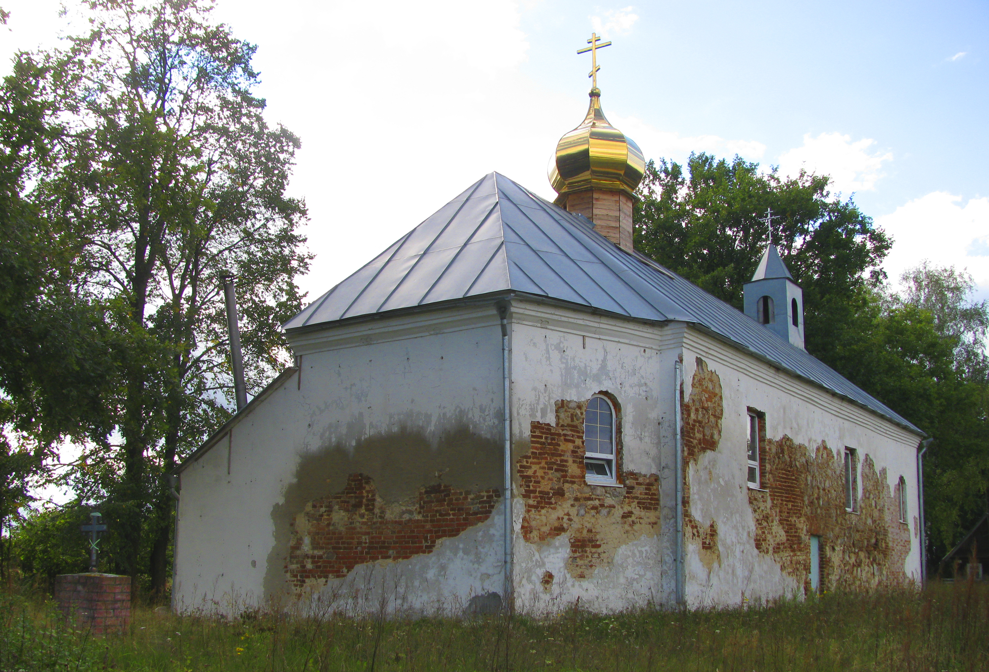 Беларуская (тарашкевіца): Мікалаеўская царква (Засімавічы) This is a photo of Belarusian heritage monument. Reference number: 113Г000608 ( WLM)